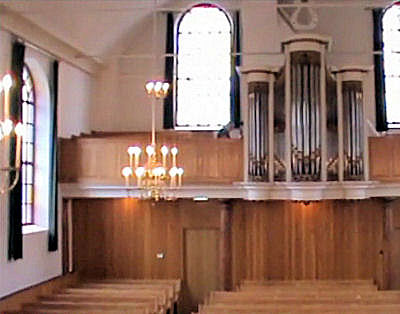 The first organ built by J. van Loo